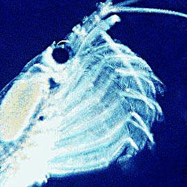 Still image of a filter-feeding Antarctic krill produced by Lupo from one frame of the animated GIF at Image:Filterkrillkils2.gif. Original movie by User:uwe kils.